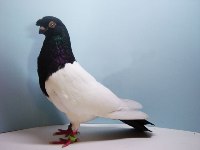 Chinese Nasal Tuft